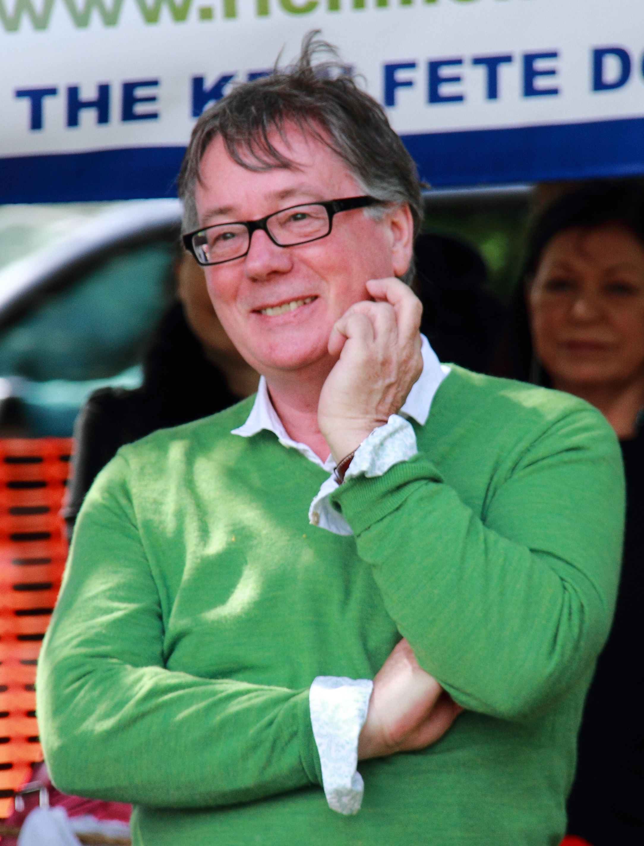 British actor Jeff Rawle at the Kew Fair Dog Show, where he was a judge. The photographer and author of this image is Richard Harris.